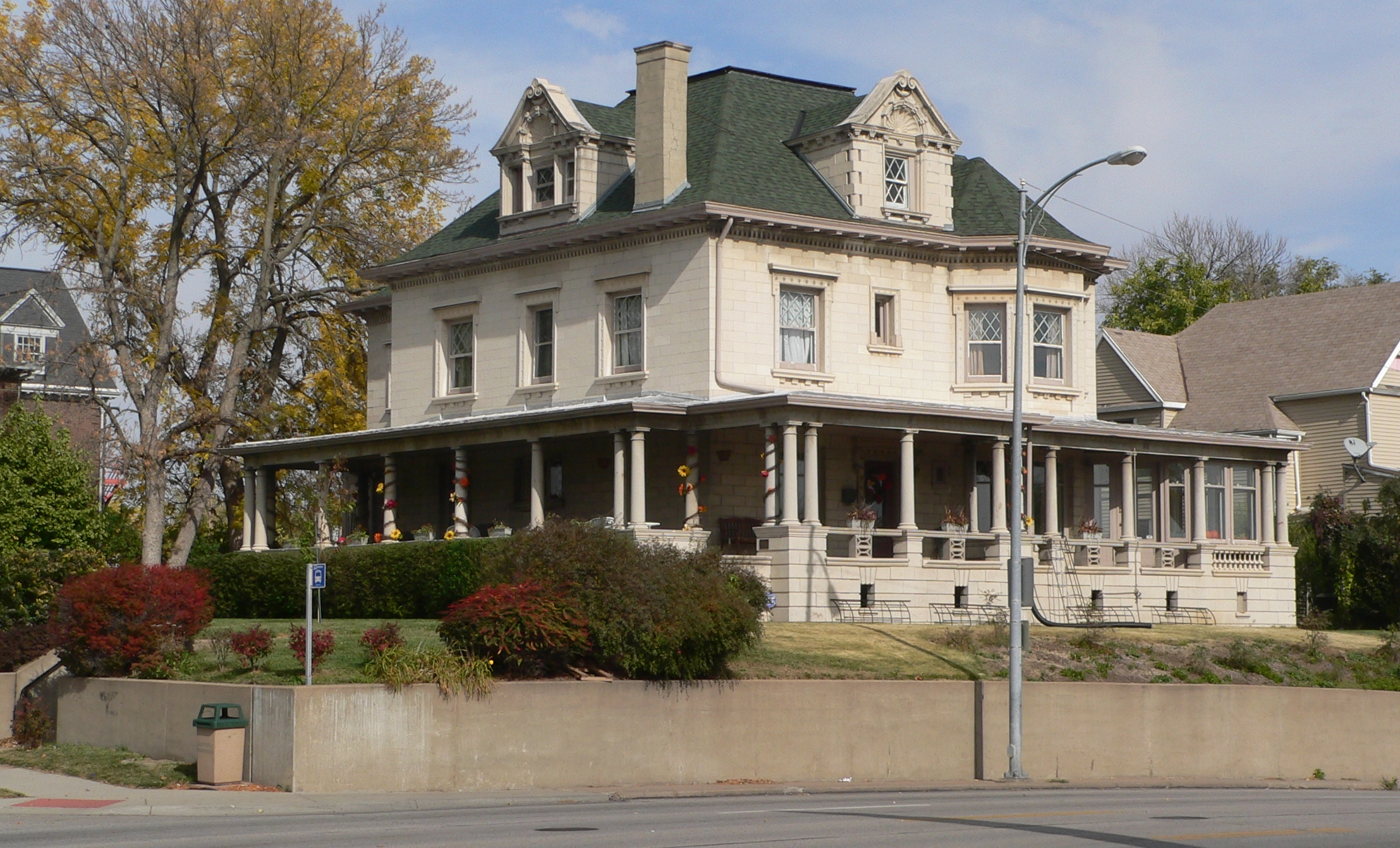 Havens-Page House, located at northeast corner of 39th Street and Dodge in Omaha, Nebraska; seen from the southwest.